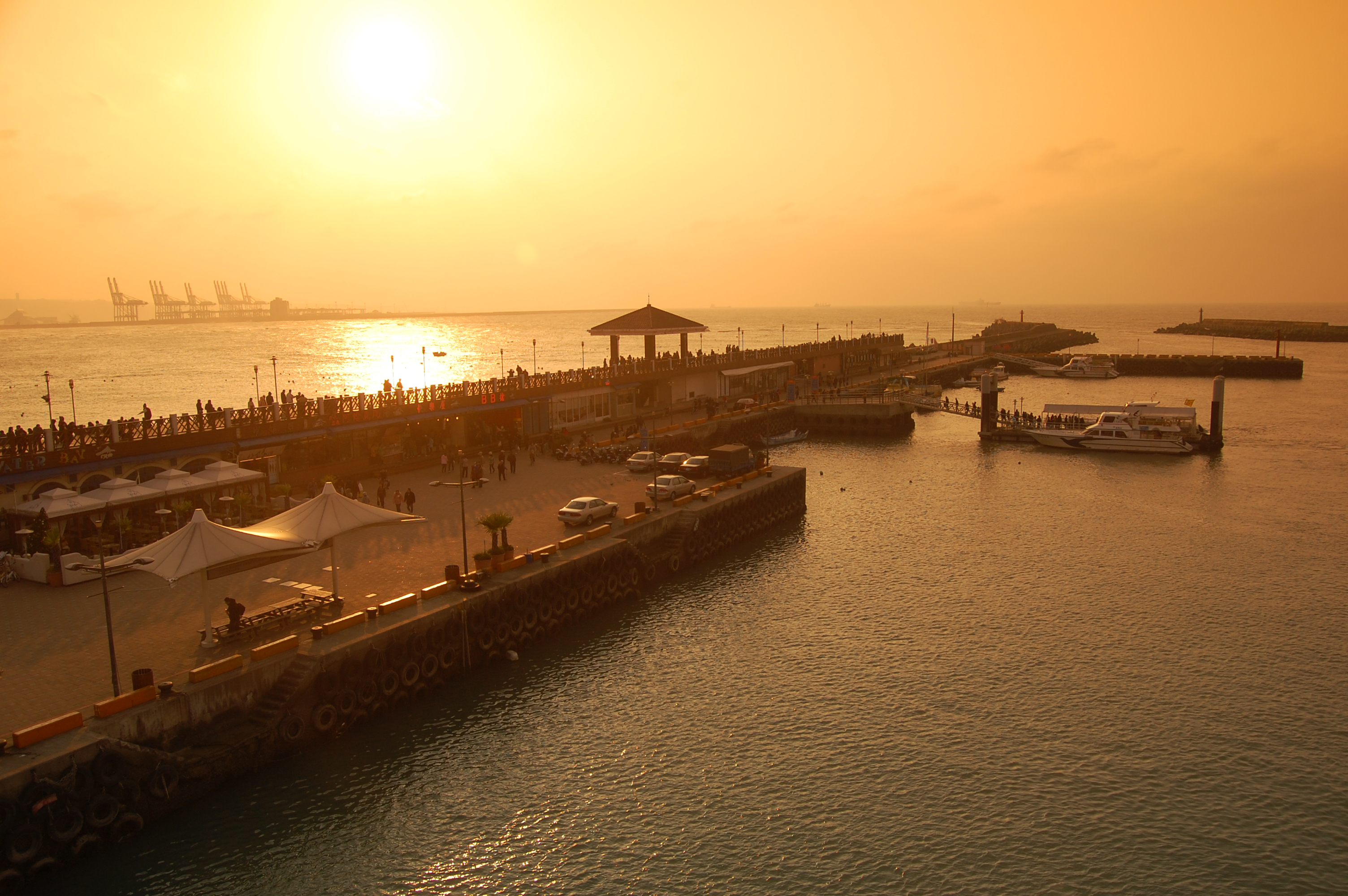 Danshui Fisherman's Wharf